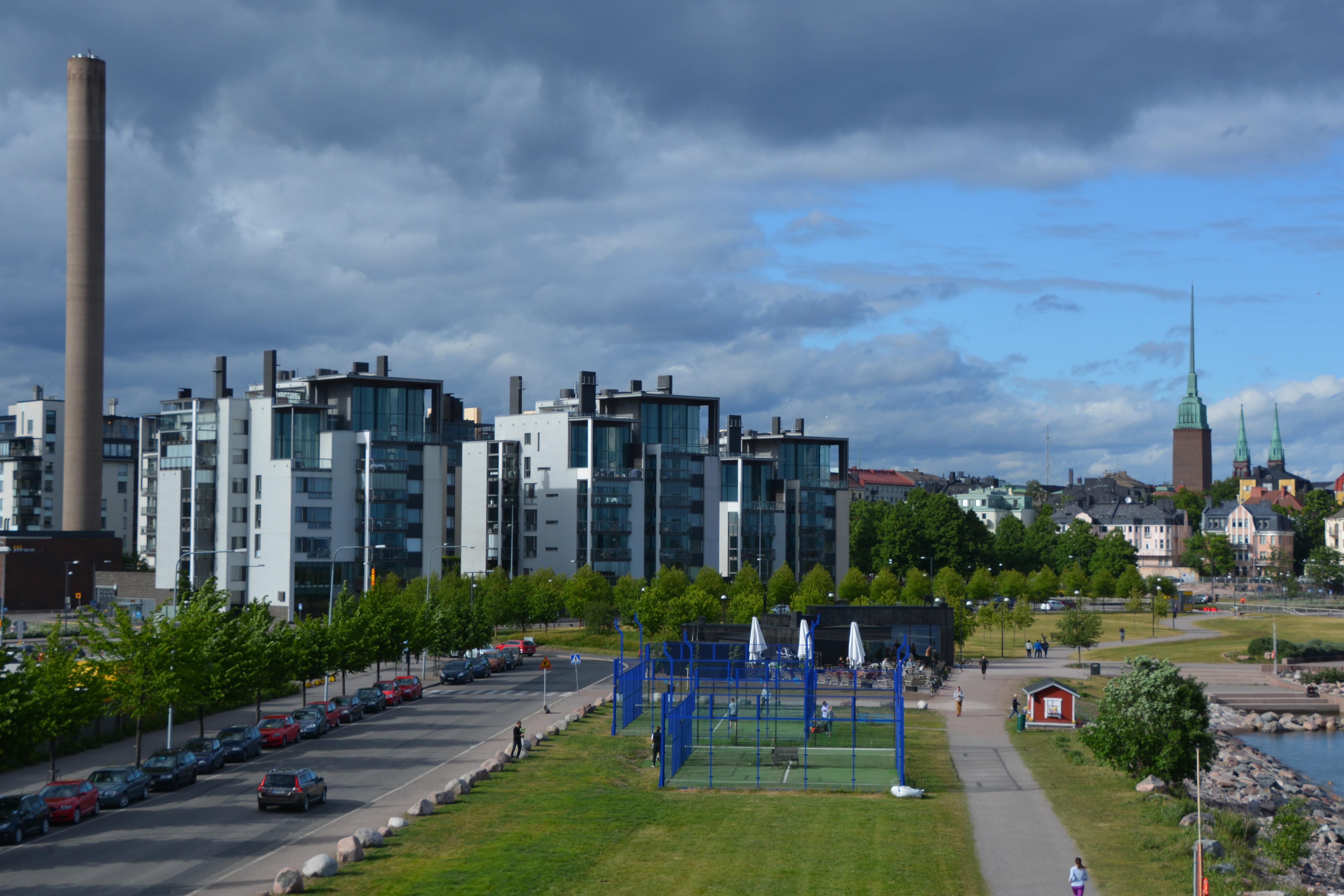 Årtholmen, Helsingfors